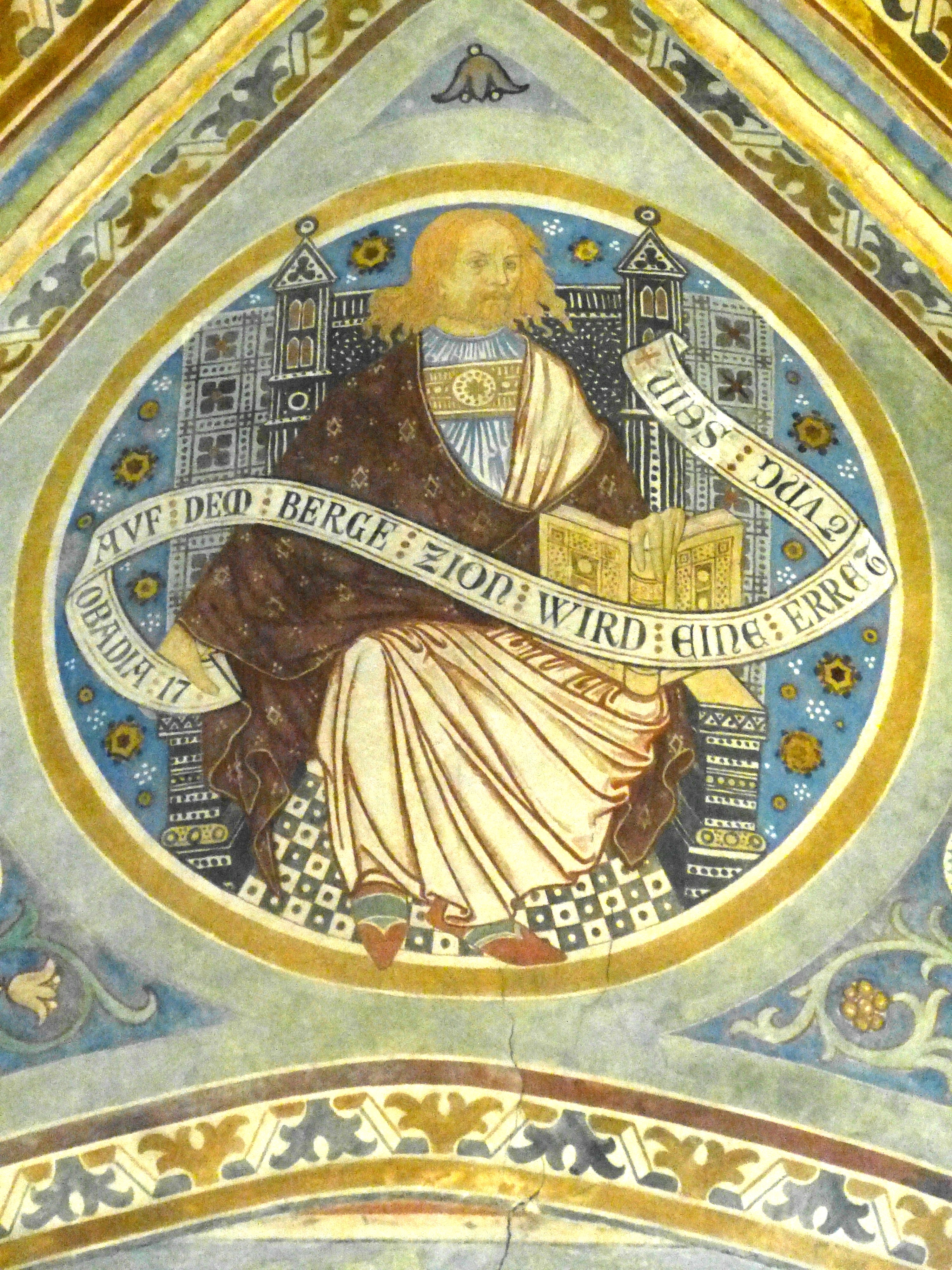 Bergen ( Rügen island ). Saint Mary church - choir: Frescos ( 12th century, restored 1896-1903 ) showing the biblical prophet Obadiah with quotation: "Upon Mount Zion there will be deliverance"( Obadiah 17 ).